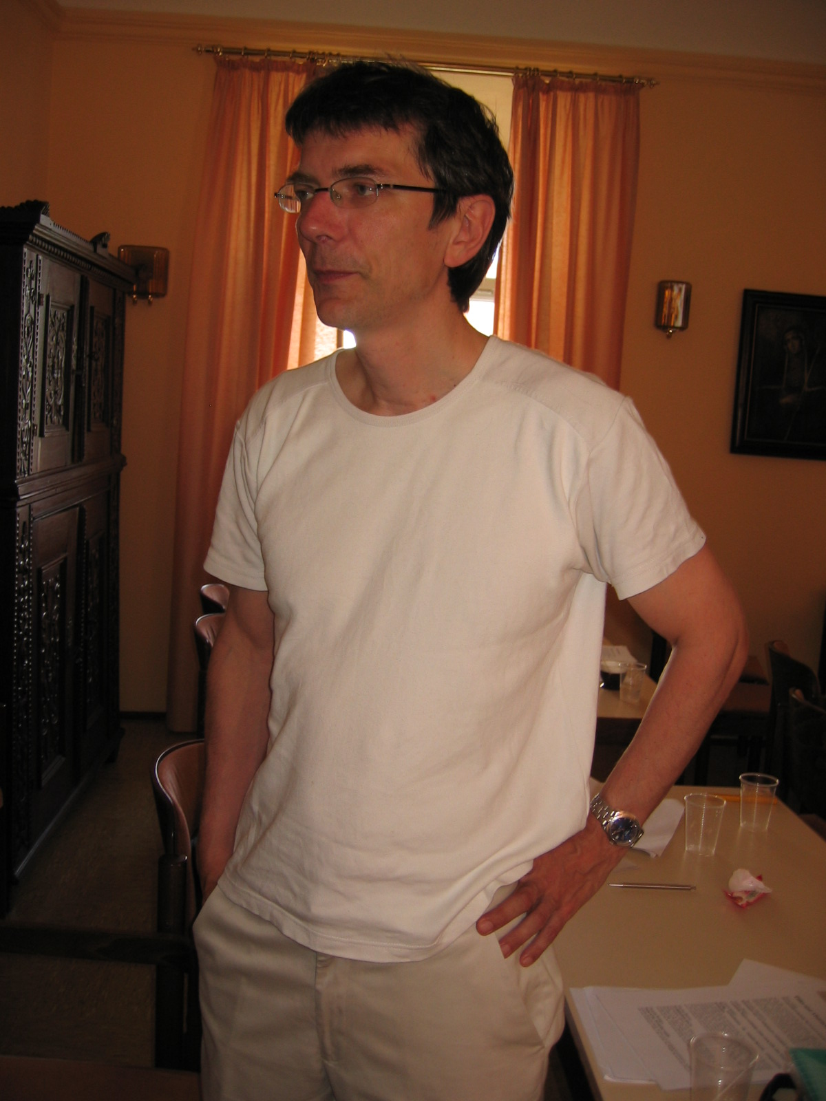 Thierry Coquand, Trends in Constructive Mathematics, Frauenwörth, June 2006